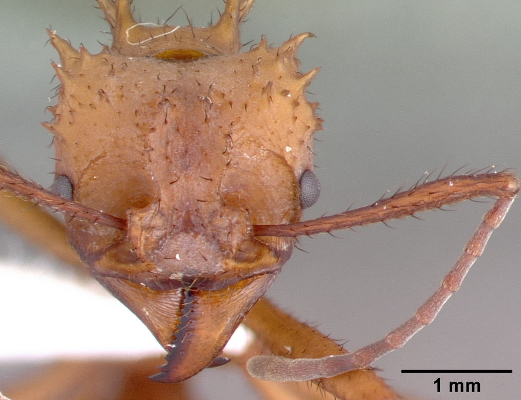 Head view of ant Acromyrmex octospinosus specimen psw7796-21.